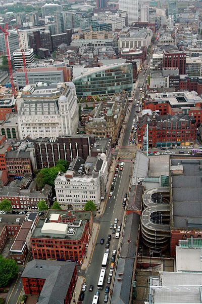 Image looking down Deansgate seen from Beetham Tower.